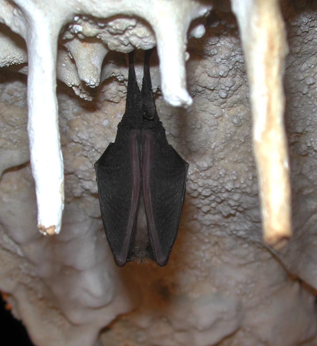 Mons(Var) chiroptera in a cave